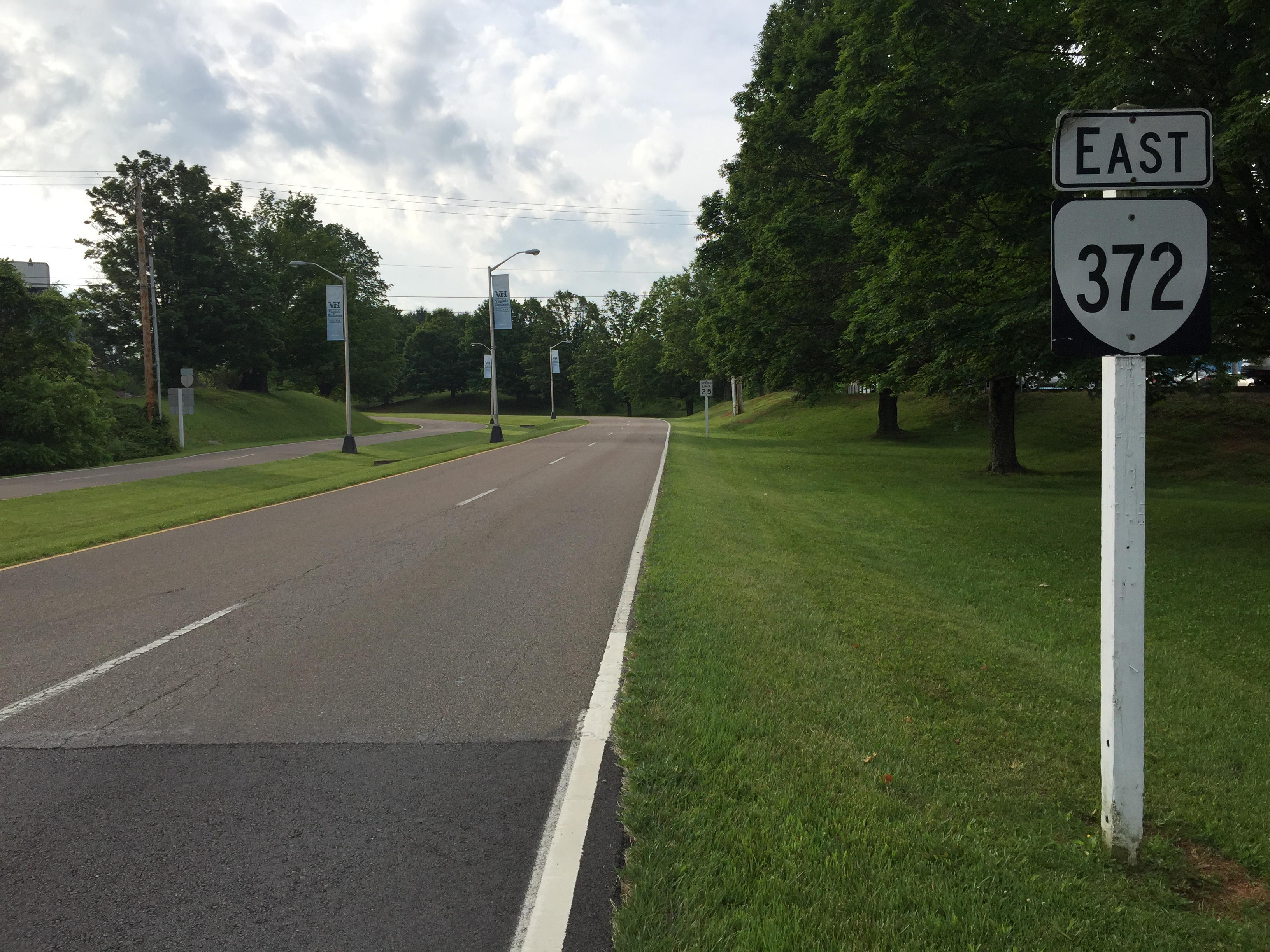 View east along Virginia State Route 372 (Virginia Highlands Community College Drive) at Virginia State Route 140 (Old Jonesboro Road) in Abingdon, Washington County, Virginia